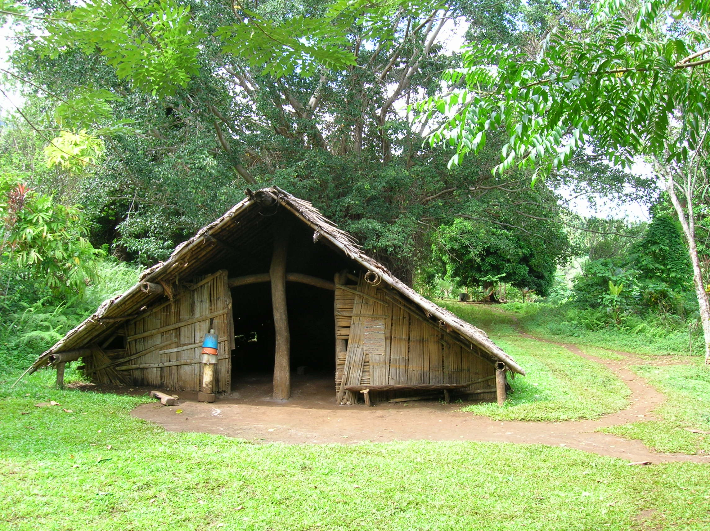 Nakamal (traditional meeting house) in Vanwoki village, Pentecost Island, Vanuatu